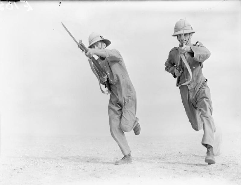 The British Army in North Africa 1940 Infantry charging with fixed bayonets during training in the desert, Egypt, 11 June 1940.